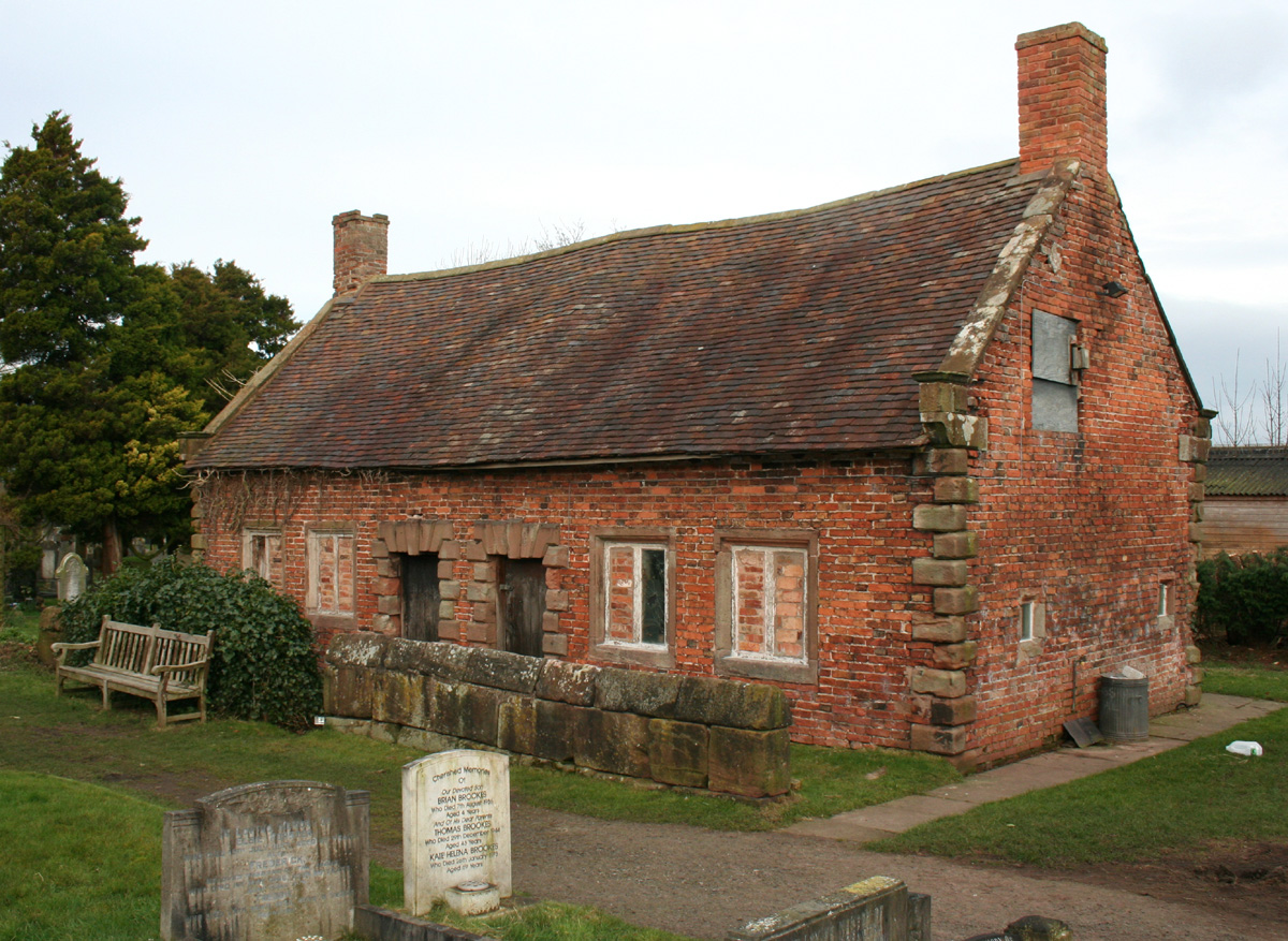 Almshouses in churchyard of St Mary's Church, Acton, Cheshire